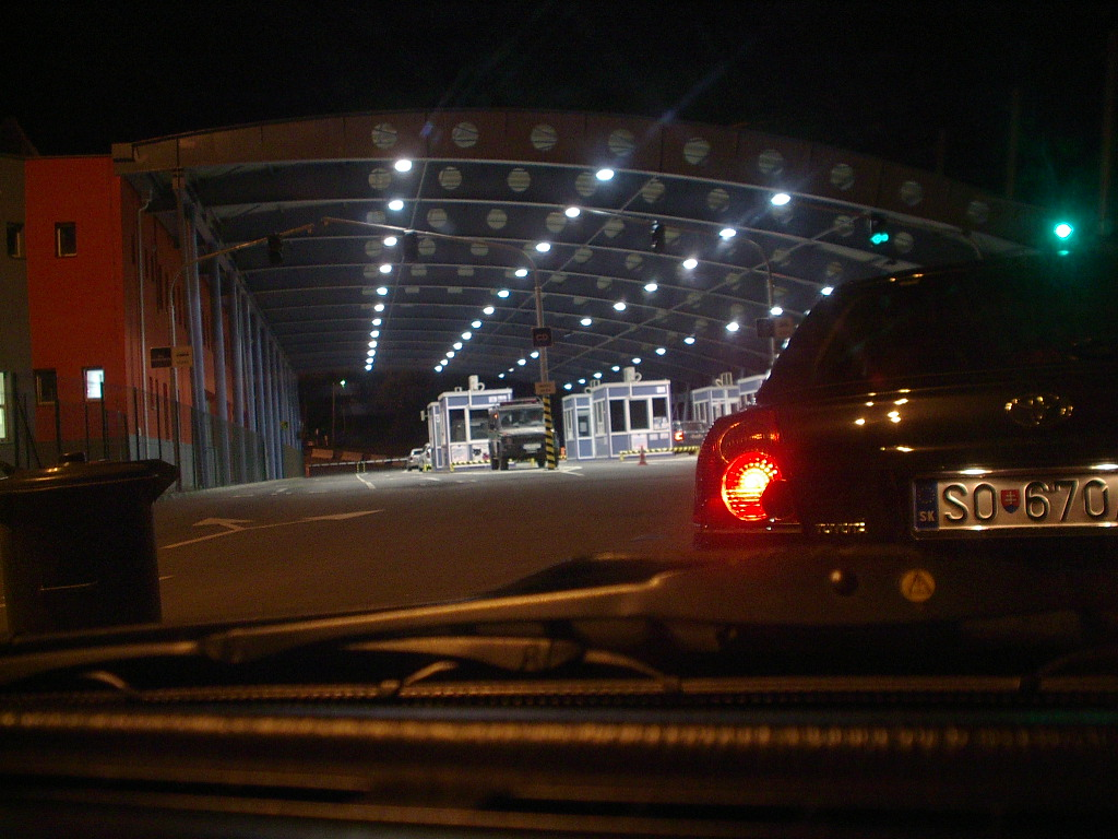 Slovak-Ukrainian border, crossing-point Uzhhorod-Vyšné Nemecké; Slovak side.